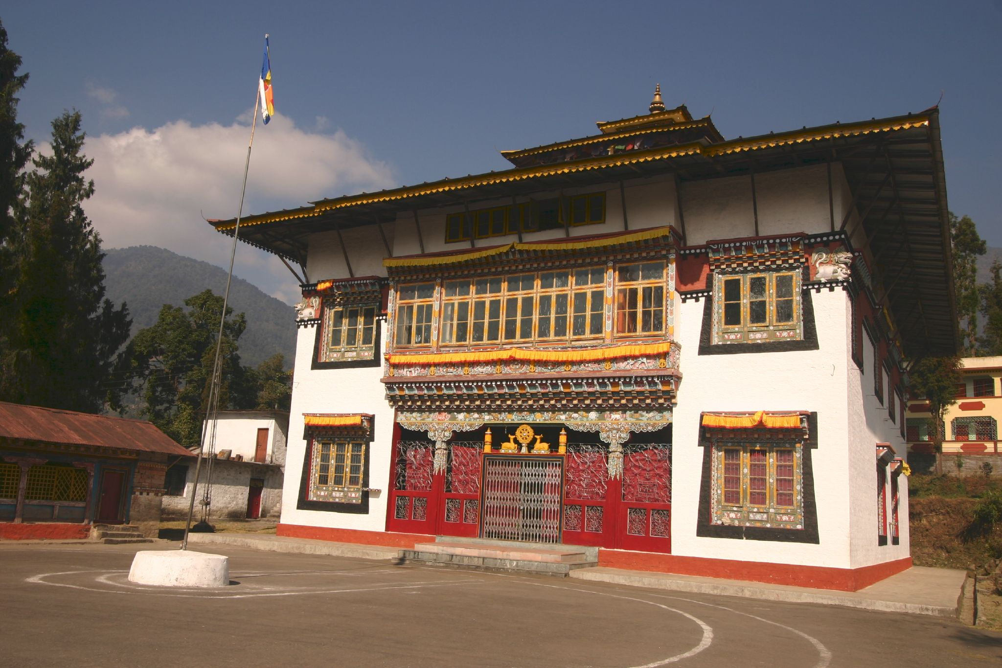 Phensong Monastery is situated on the gentle slope stretching from Kabi to Phodong. It is perhaps one of the best landscapes in the region. The monastery was built in 1721, during the time of Jigme Pawo, under the Nyingmapa Buddhist order. It was gutted by fire in 1947 and rebuilt in 1948 through efforts of lamas. The annual festival of Chaam is performed on the 29 th and 28 th days of the lunar calendar (Tibetan calender).